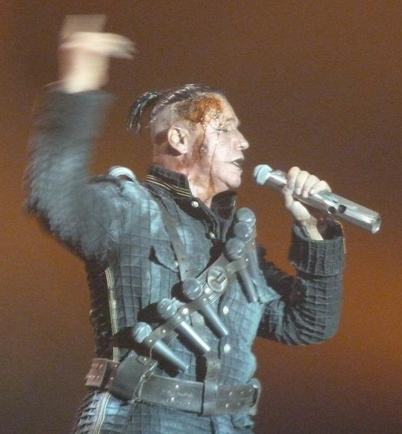 Till Lindemann new look for Made in Germany Tour